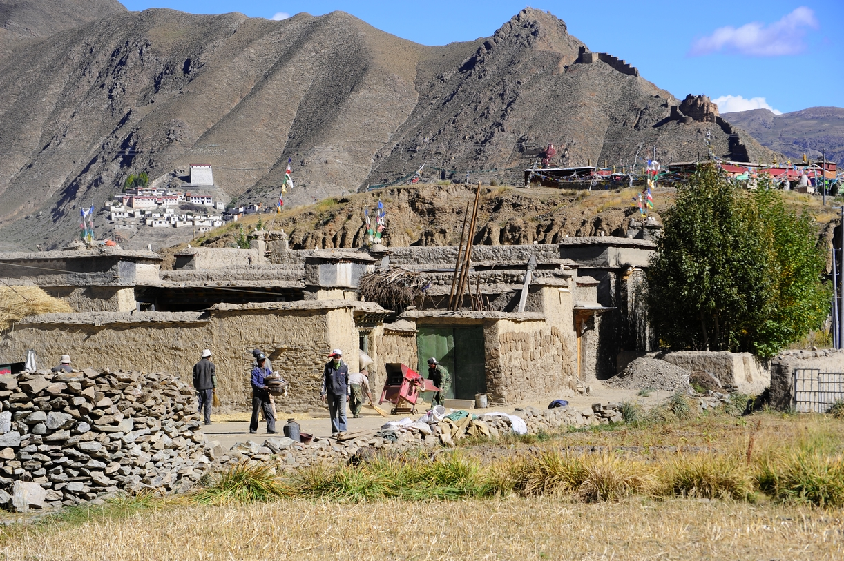 Qonngye, near Valley of Tibetan Kings